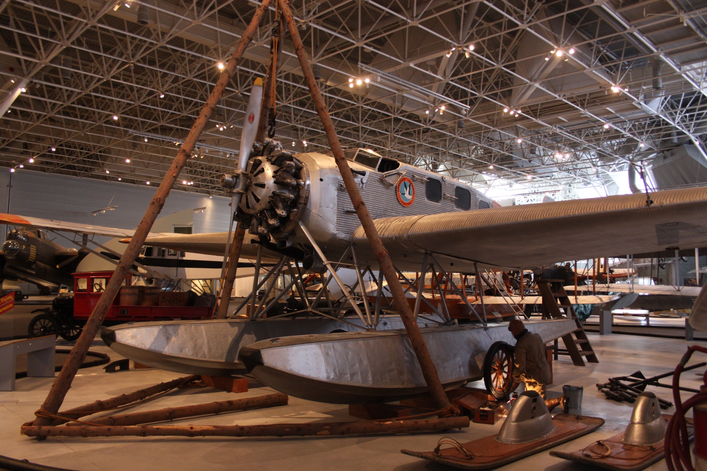 At Rockcliffe Canada Aviation Museum